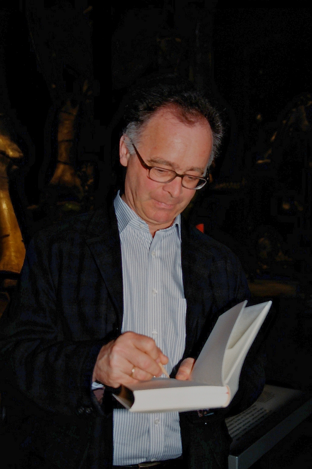 Austrian illustrator Christian Thanhäuser signs a book at the presentation of volume 1 of the complete german edition of Jean-Henri Fabre's Souvenirs entomologiques [Erinnerungen eines Insektenforschers]at the Museum für Naturkunde (Berlin) in Berlin-Mitte, Germany.